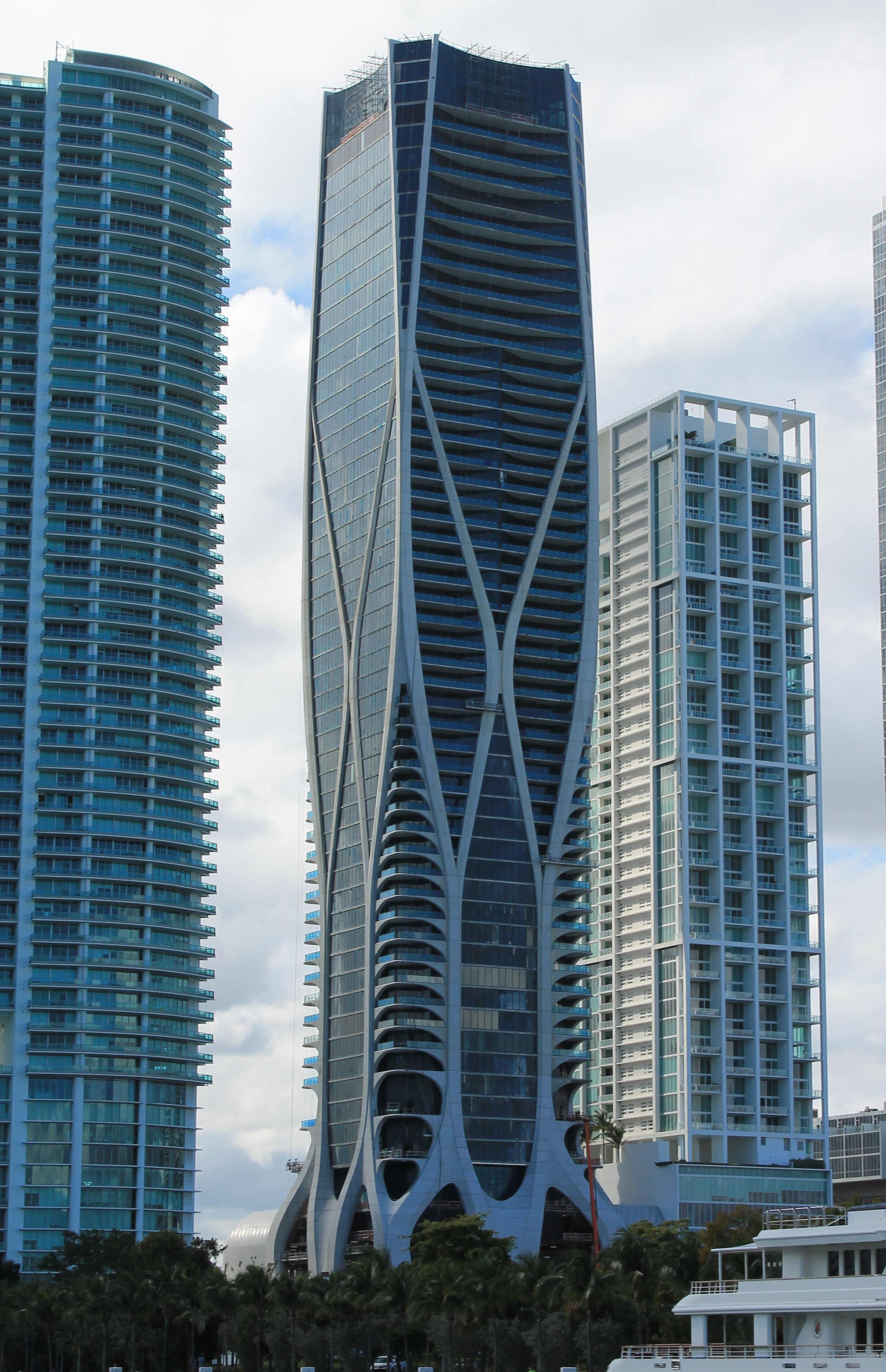 One Thousand Museum seen on 20 March 2019.